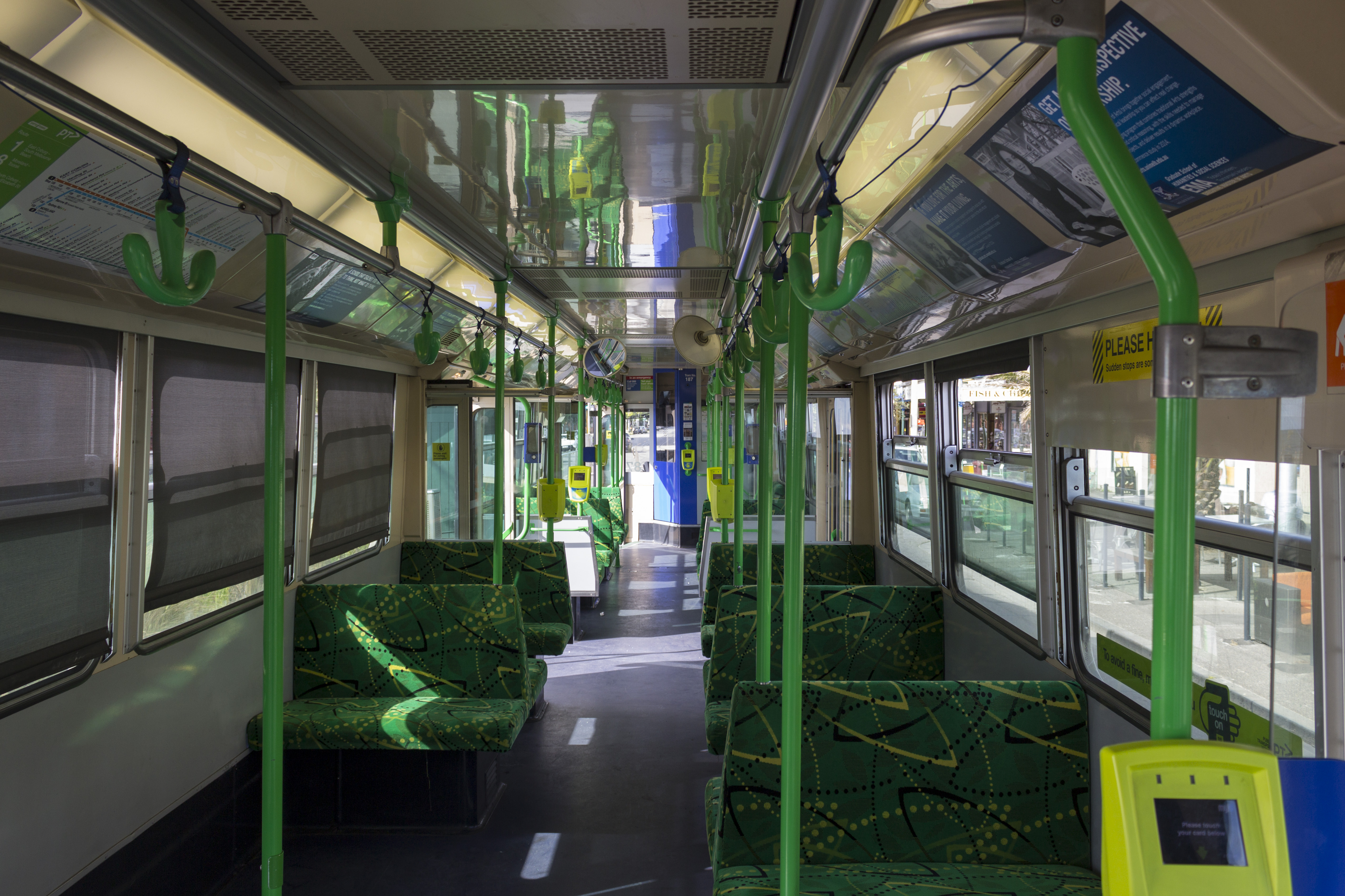 Z3-class Melbourne tram interior, 2013.